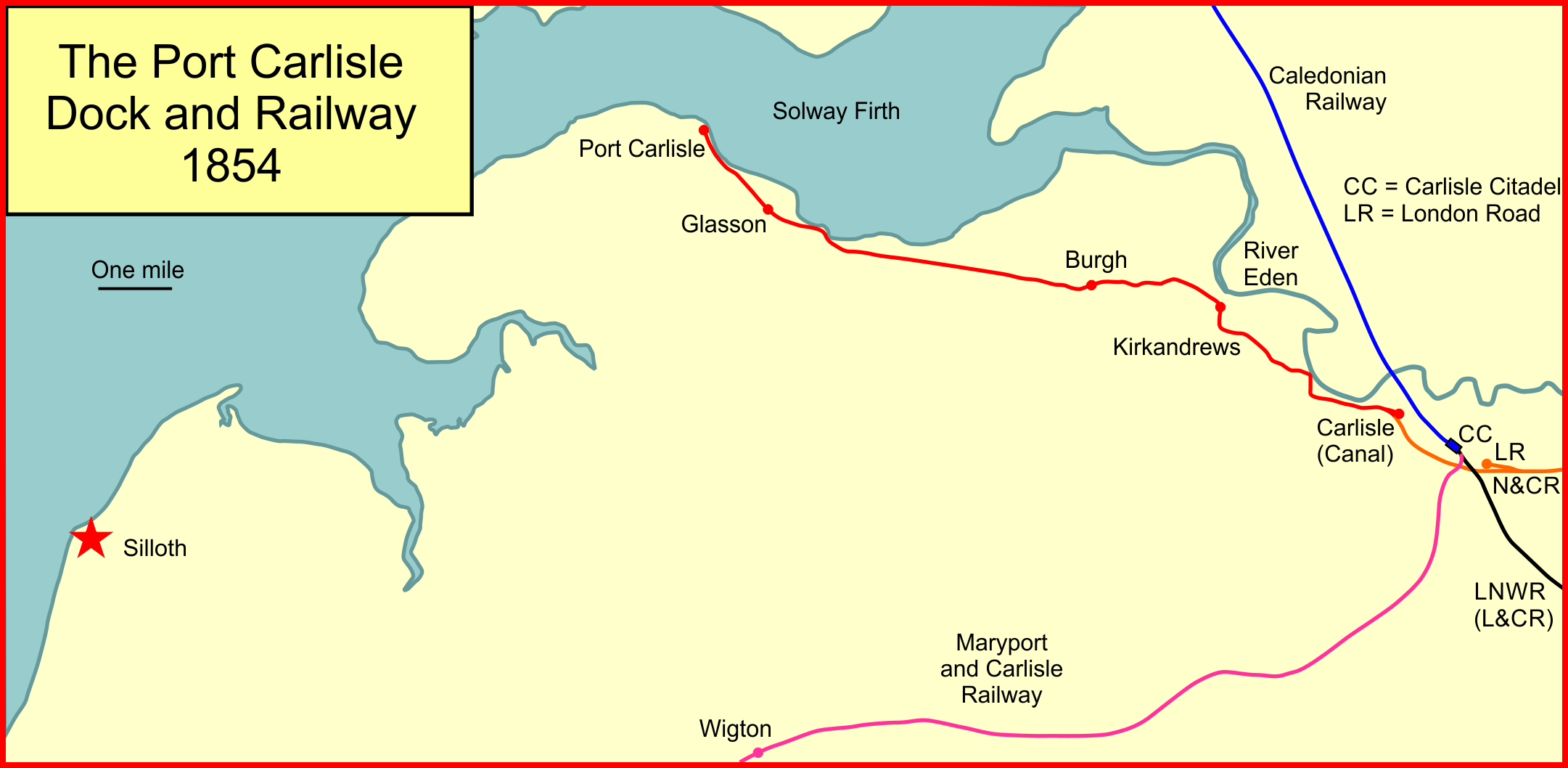 System map of the Port Carlisle Dock and Railway company, Cumberland, England in 1854